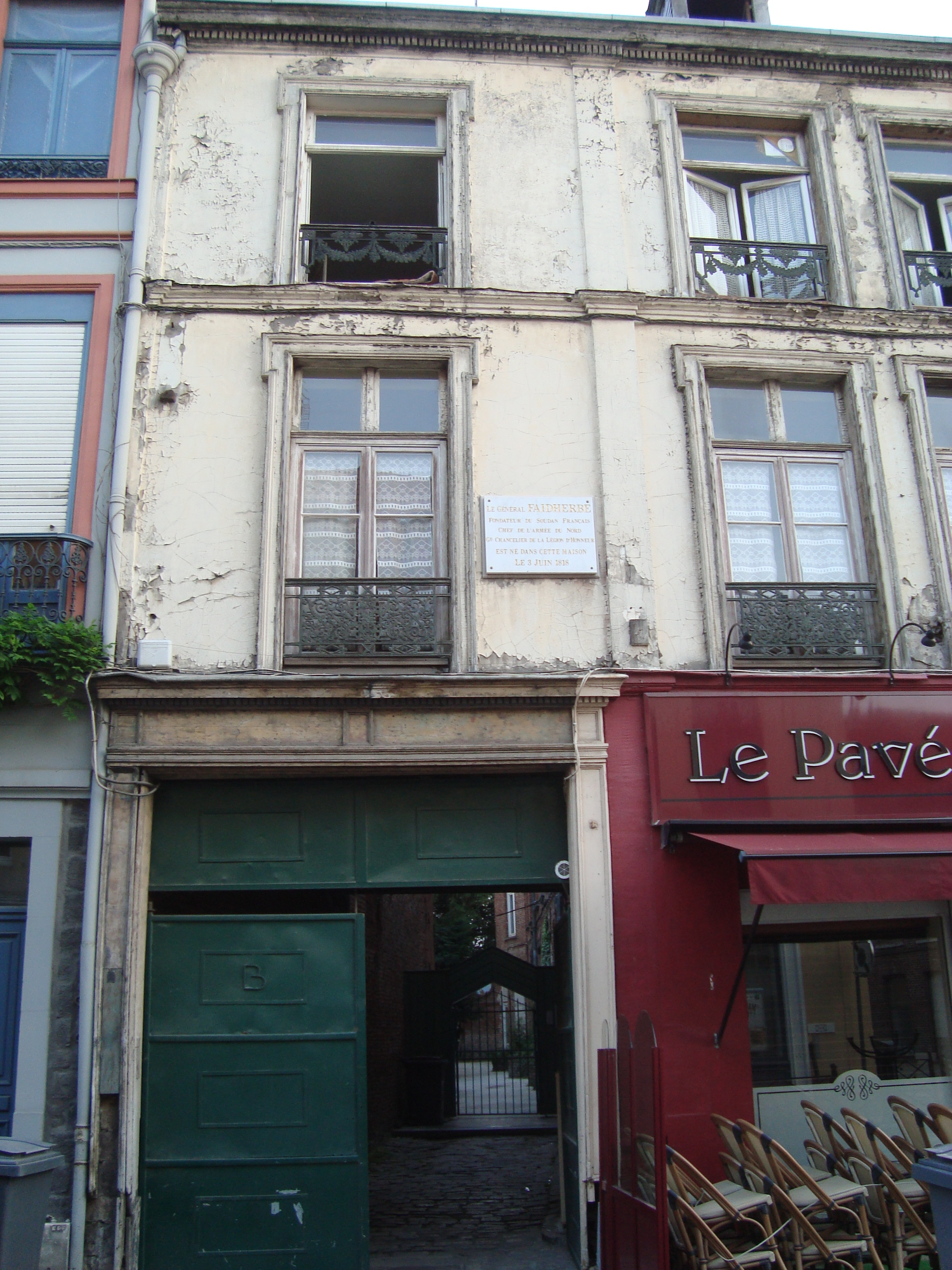 Birth house of Louis Faidherbe at rue Saint-André in Lille.